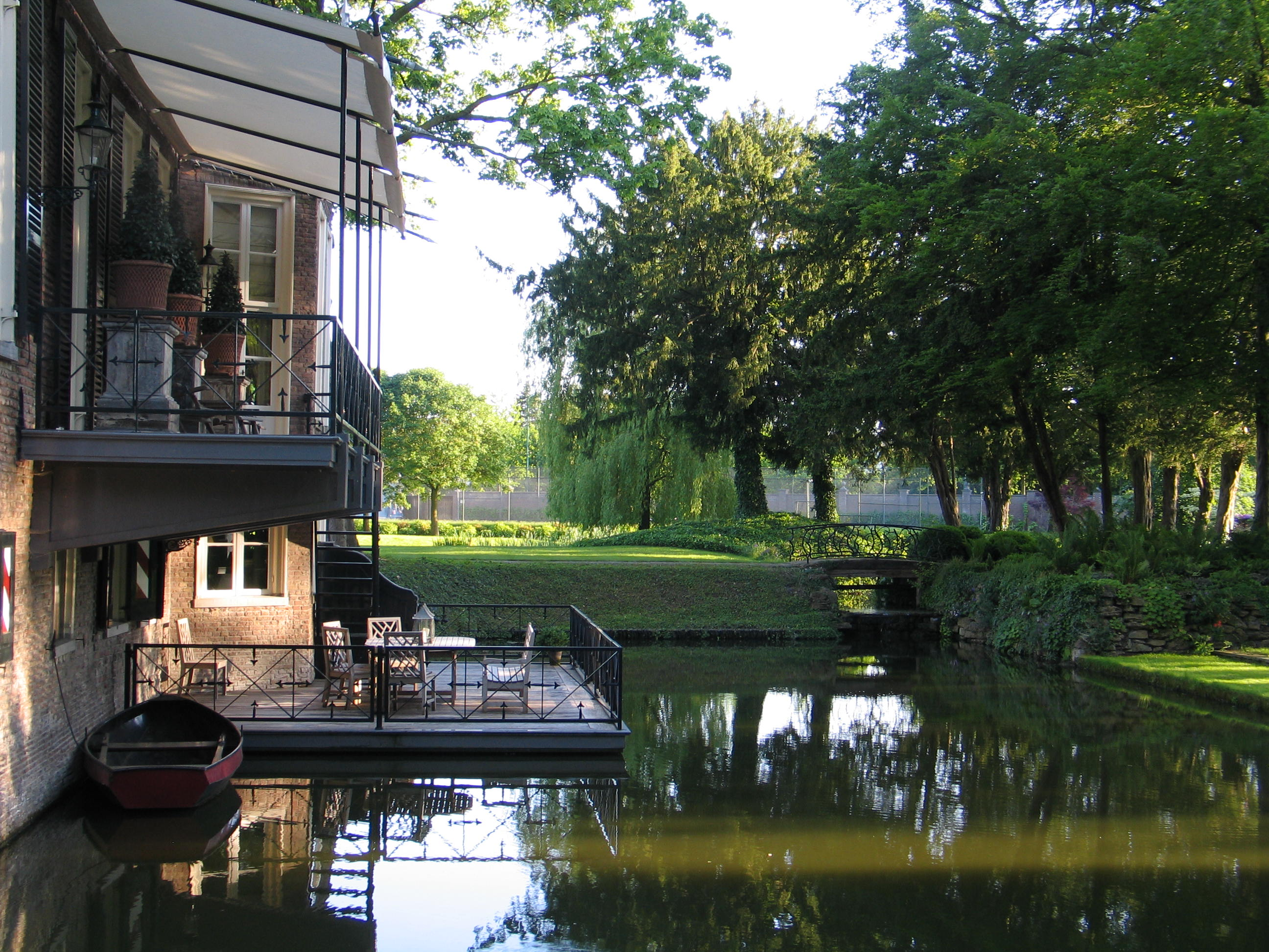 Rear side of Bolenstein a mansion at Maarssen (the Netherlands)